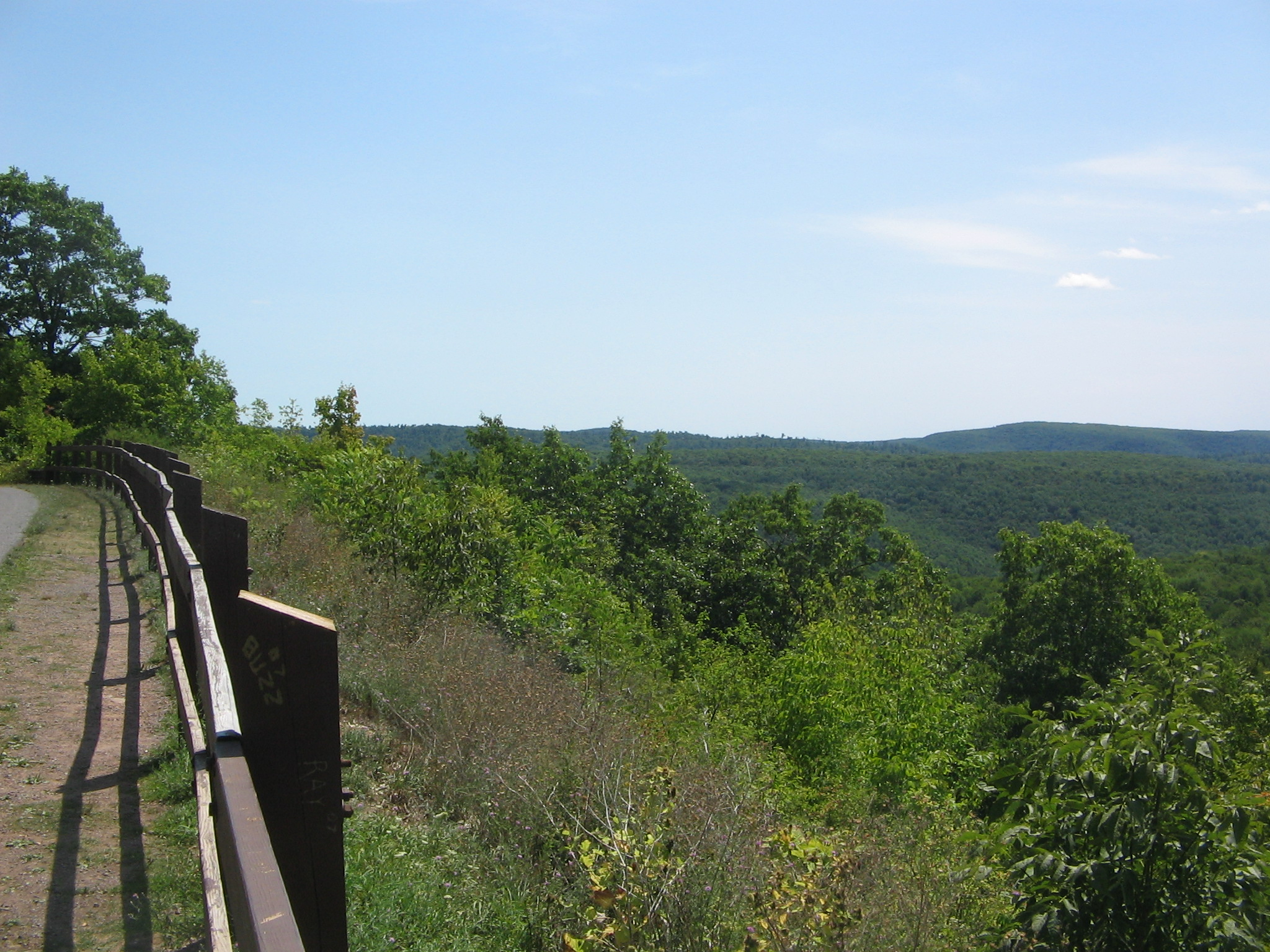 Panorama (Image 1) from High Knob vista of Loyalsock State Forest, Hillsgrove Township, Sullivan County, Pennsylvania, USA